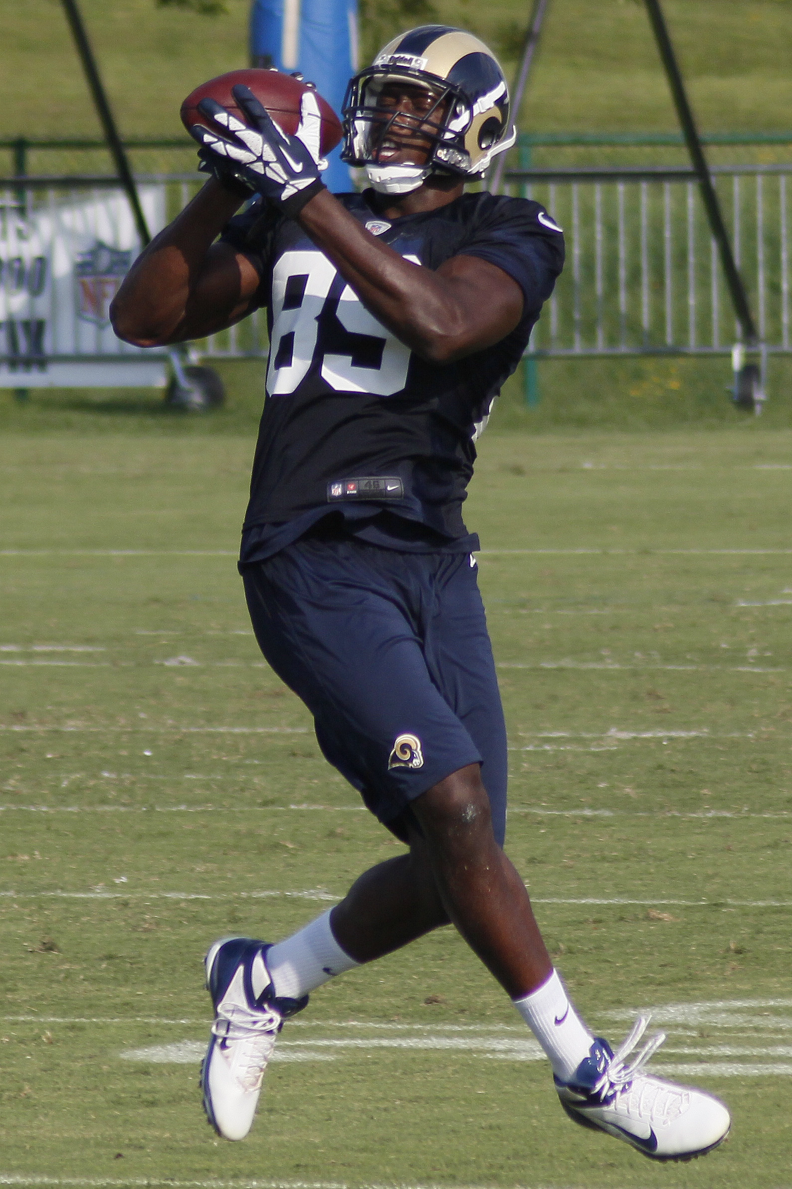 Jared Cook of the Rams. 2013